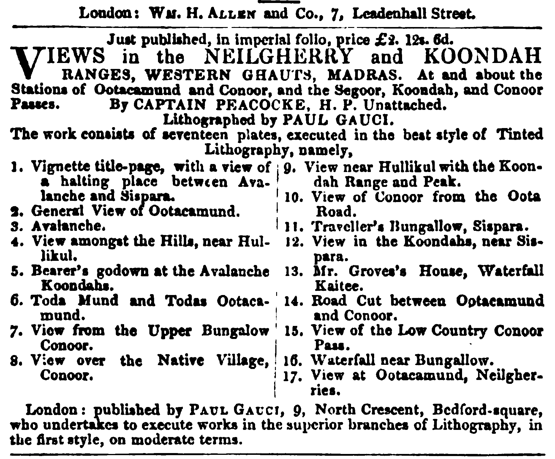 Advertisement for lithographs by Stephen Peacock ("Captain, Half Pay (unattached)")